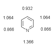 electronic charge on pyridine